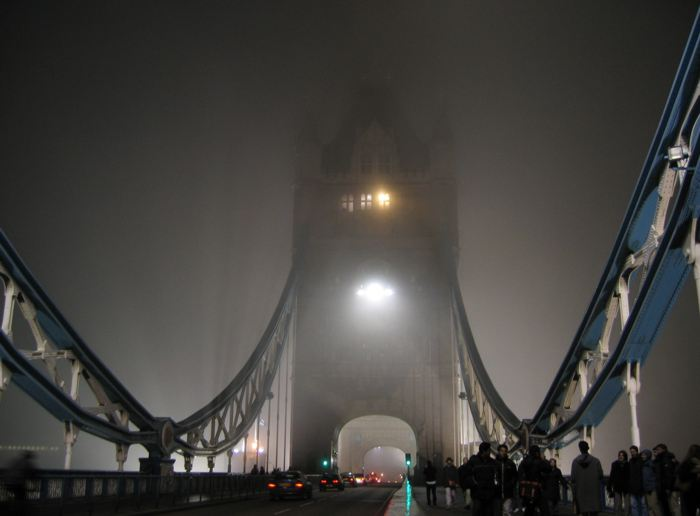 Looking south across London's Tower Bridge in the fog.